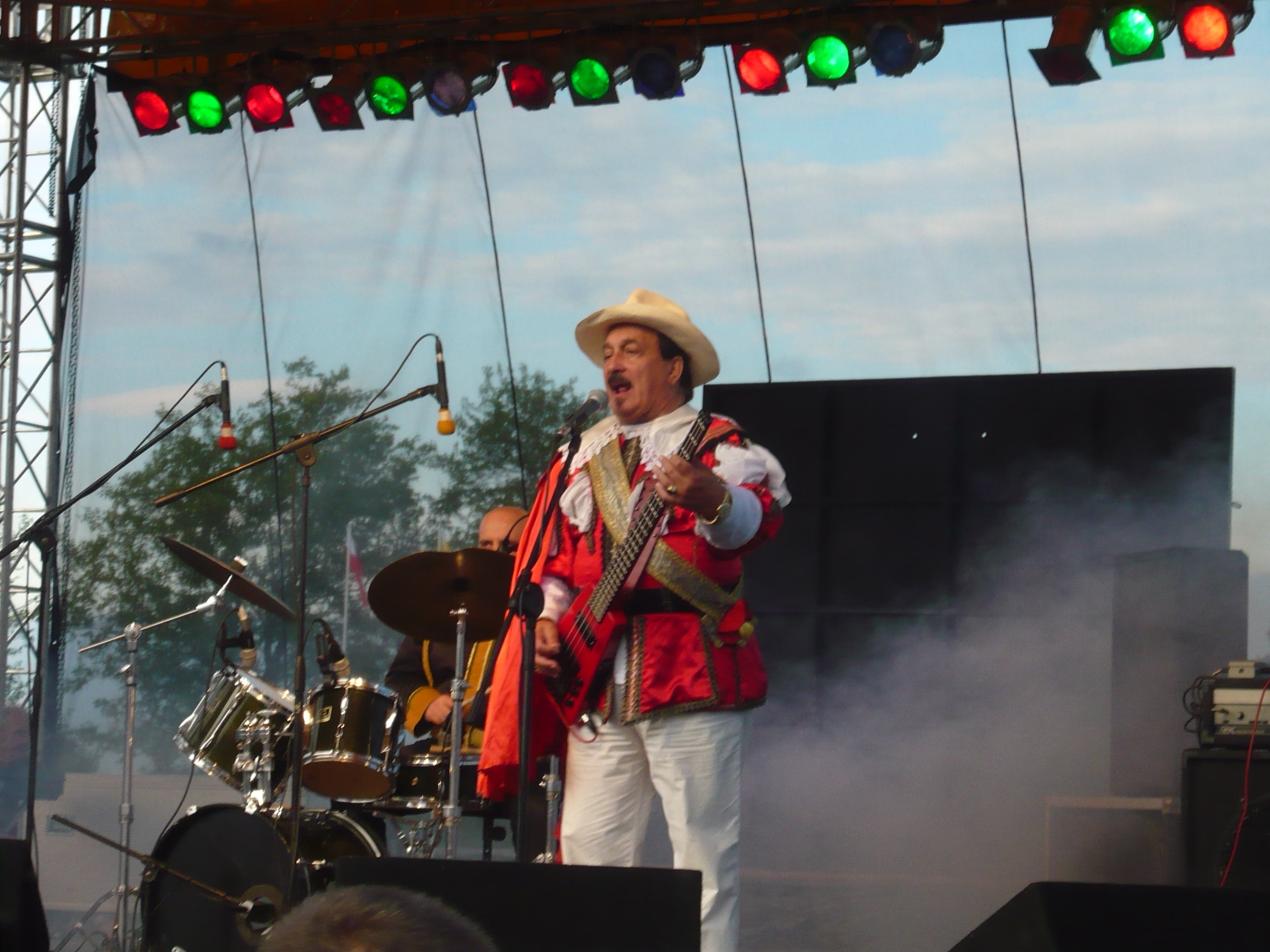 Concert of Trubadurzy in Kowal.